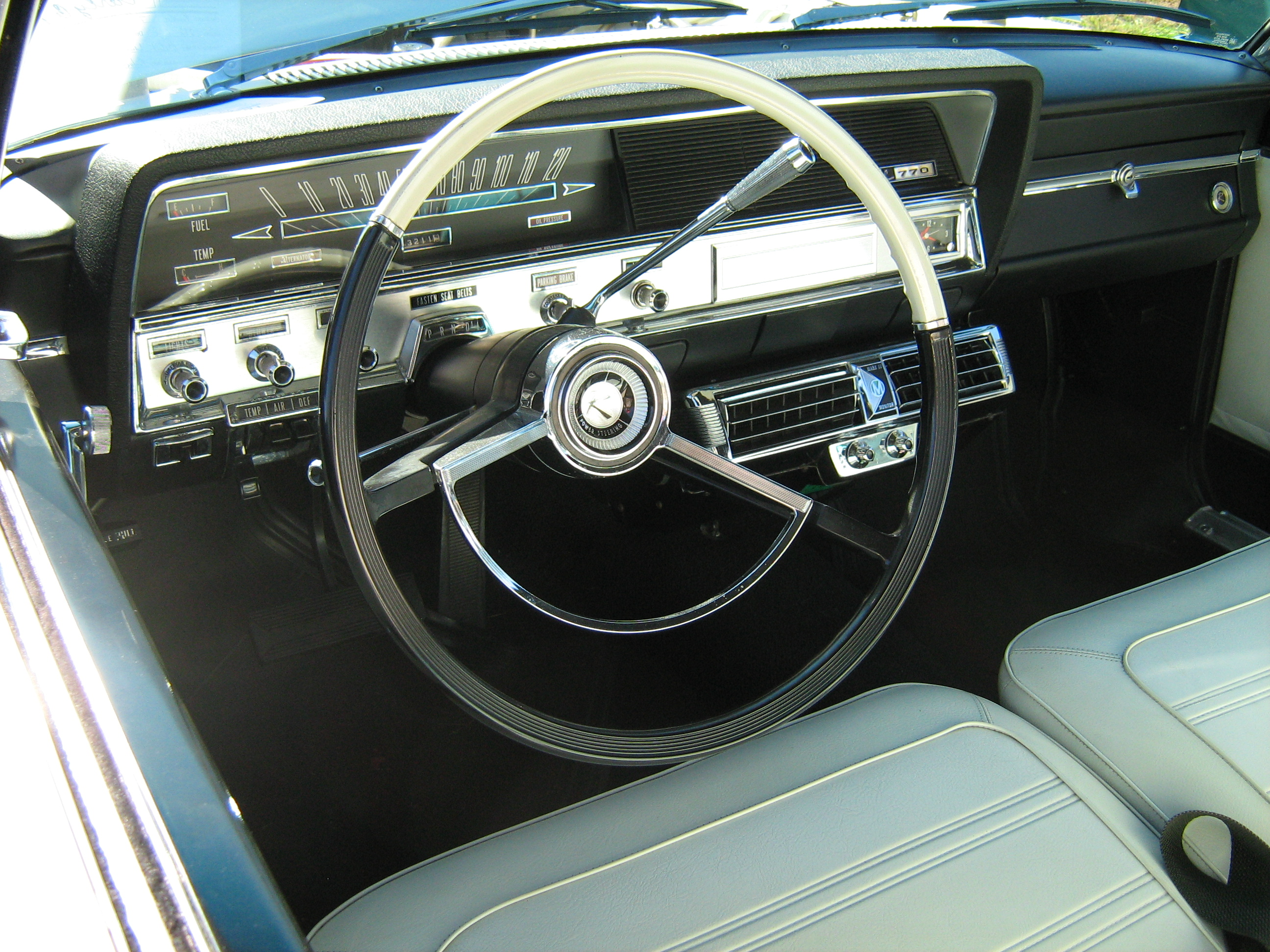 Interior of a 1965 Rambler Classic 770 convertible by American Motors Corporation (AMC). This car has the standard 6-cylinder engine with automatic transmission, aftermarket "universal" air conditioning unit, as well as the "radio delete" face plate in the lower center of the dash.